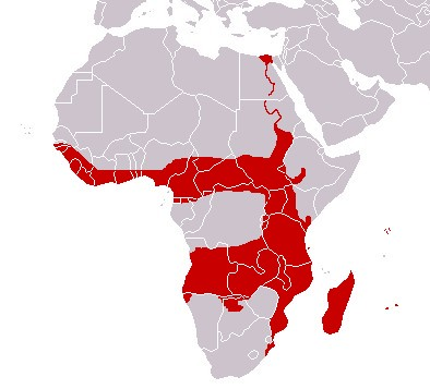 Ptychadena mascareniensis distribution.